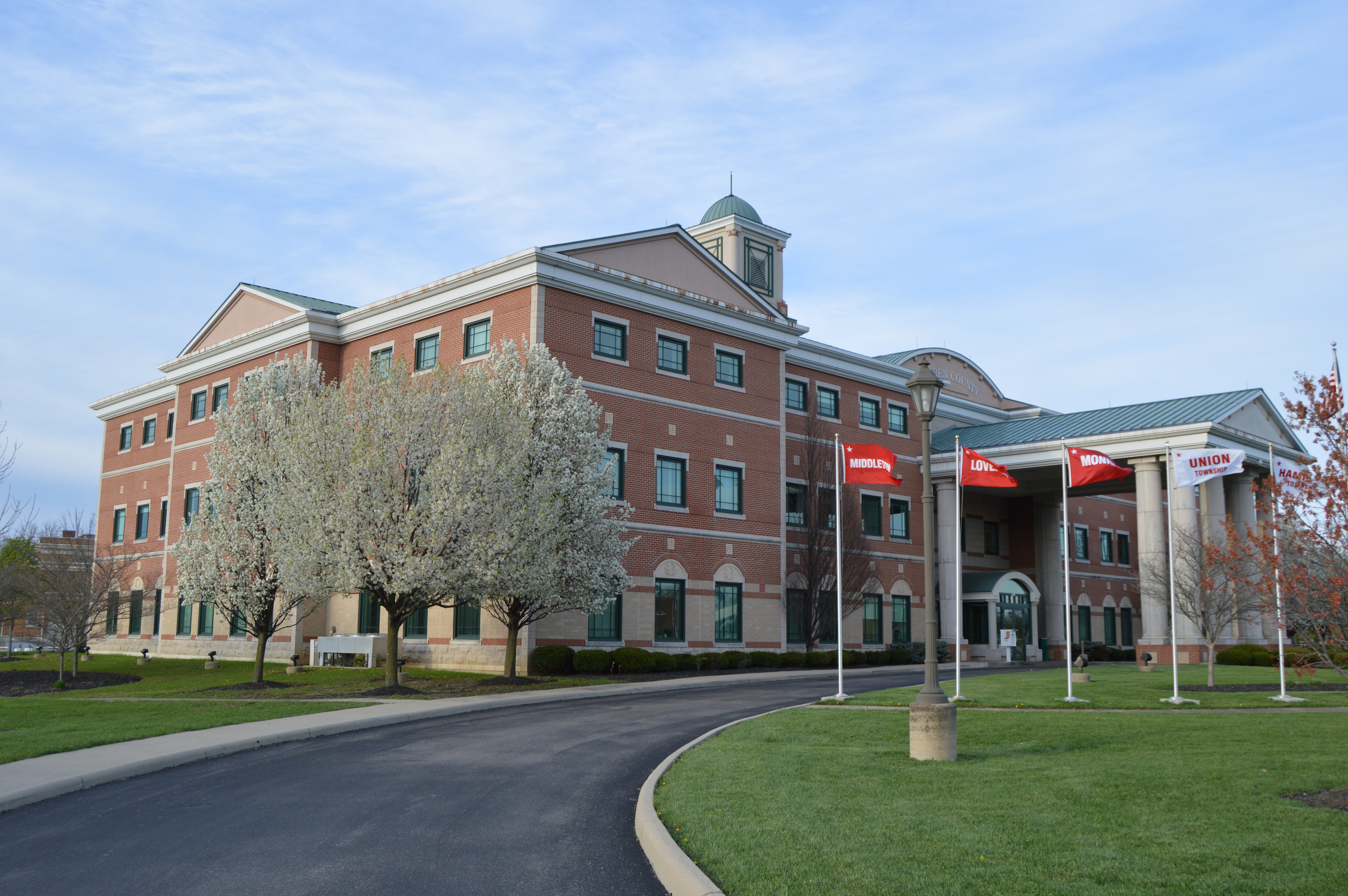 Front and western side of the Warren County Courthouse, located on Justice Drive southeast of central Lebanon, Ohio, United States.